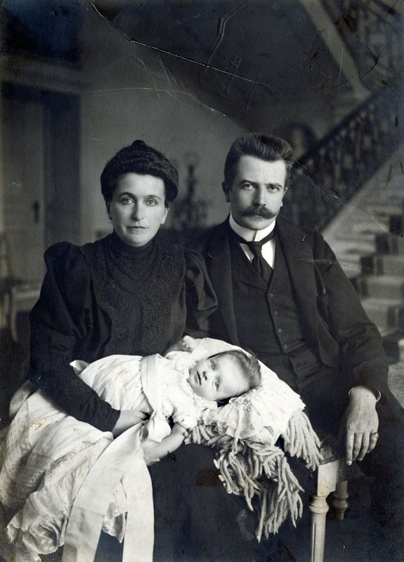 Antanina Sofija (1870–1953) and Feliksas Tiškevičius (1869–1933) with a baby inside the Palanga Palace